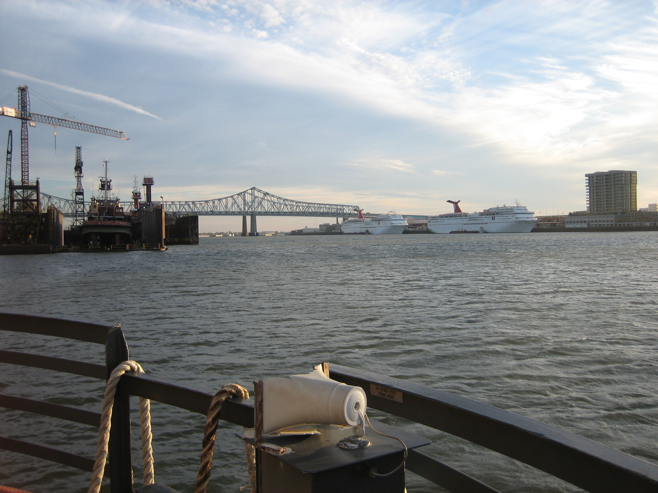 New Orleans: View across the Mississippi River from the Algiers ferry looking across and up river to the Central Business District, with the Crescent City Connection visible. The two cruise ships were used to house police, medics, and other emergency personell who lost their homes in the aftermath of Hurricane Katrina.